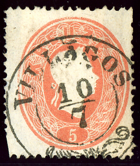 Austrian stamp issue 1861 cancelled at Villagos (Arad County, Romania)